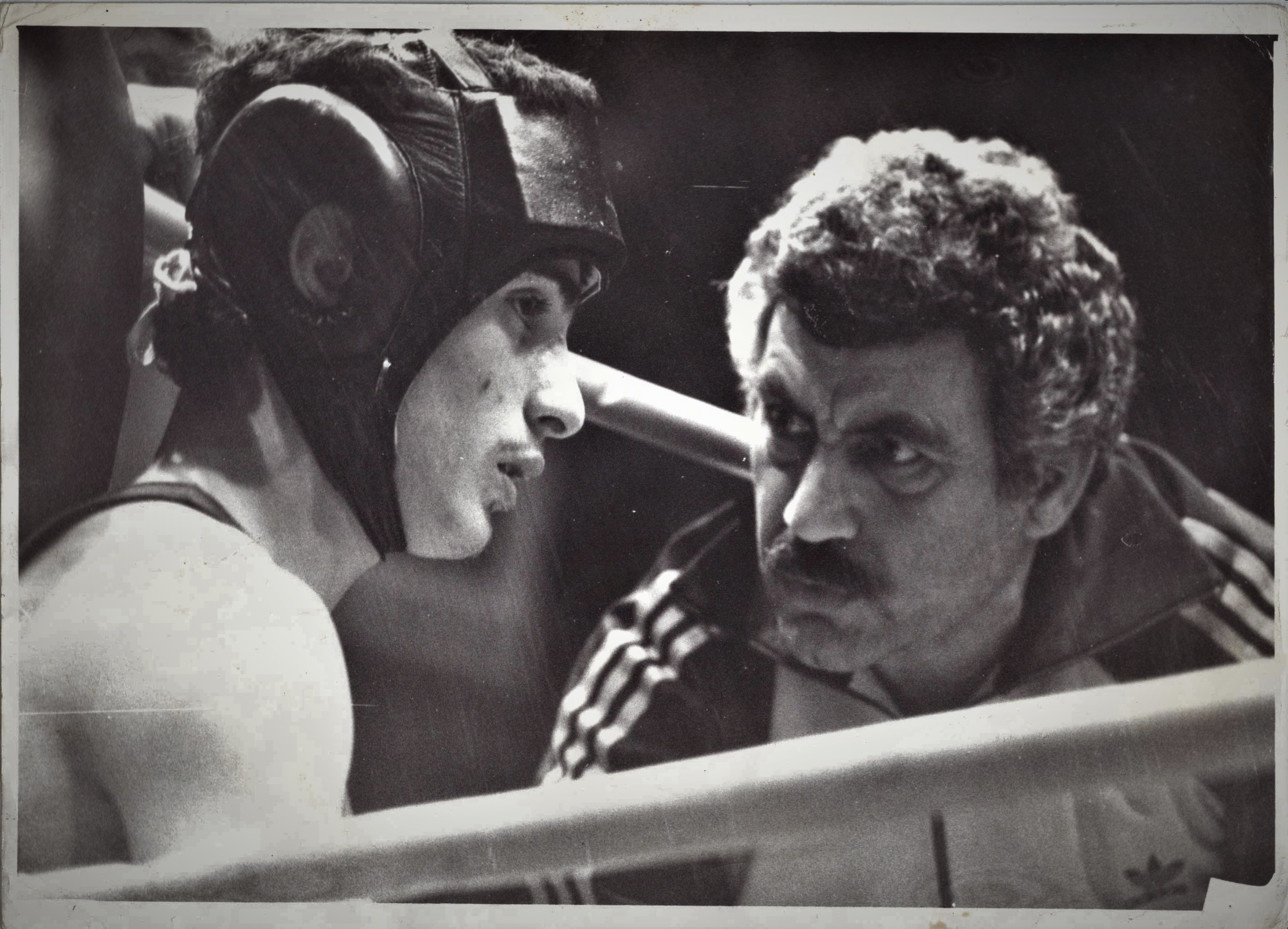 V. M. Kirkorov makes a setting to round for Garii Akopian